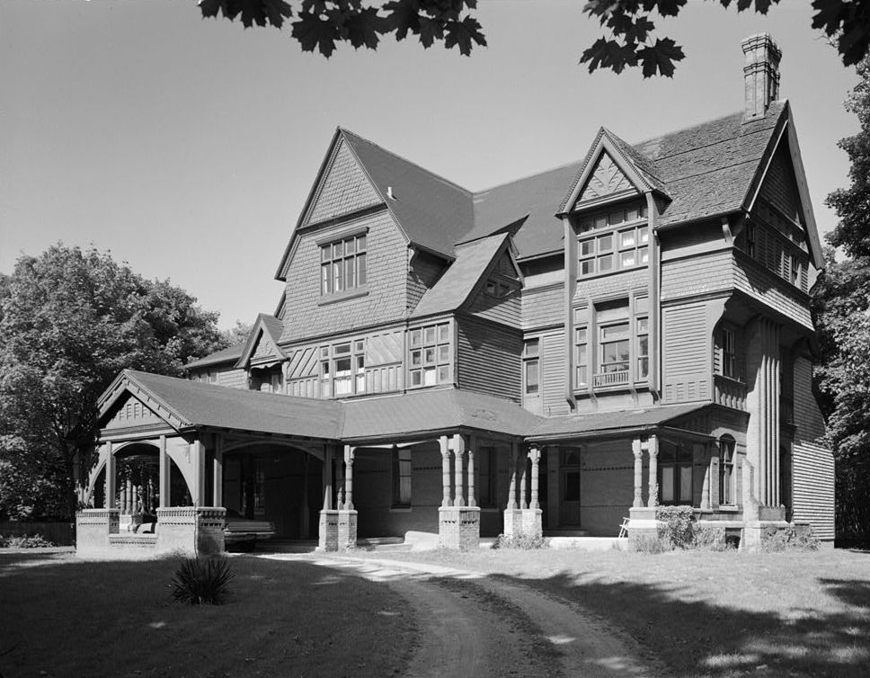 Charles H. Baldwin Houseand gardens — on Bellevue Avenue, in the Bellevue Avenue Historic District of Newport, Rhode Island. Shingle Style residence built 1877-78, designed by Edward Tuckerman Potter & Robert Henderson Robertson, architects. 1970 image: Historic American Buildings Survey of Rhode Island.